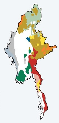 Ethnolinguistic map of Burma (Myanmar). Created using data from: M.J. Smith, "Burma: Insurgency and the Politics of Ethnicity" (London: Zed Books Ltd 1991)